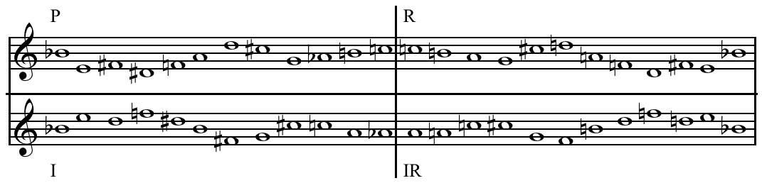 Mirror forms, P, R, I, and RI, of a tone row (from Schoenberg's Variations for Orchestra op. 31): "Called mirror forms because...they are identical." Created by Hyacinth (talk) 06:51, 7 December 2010 using Sibelius 5.